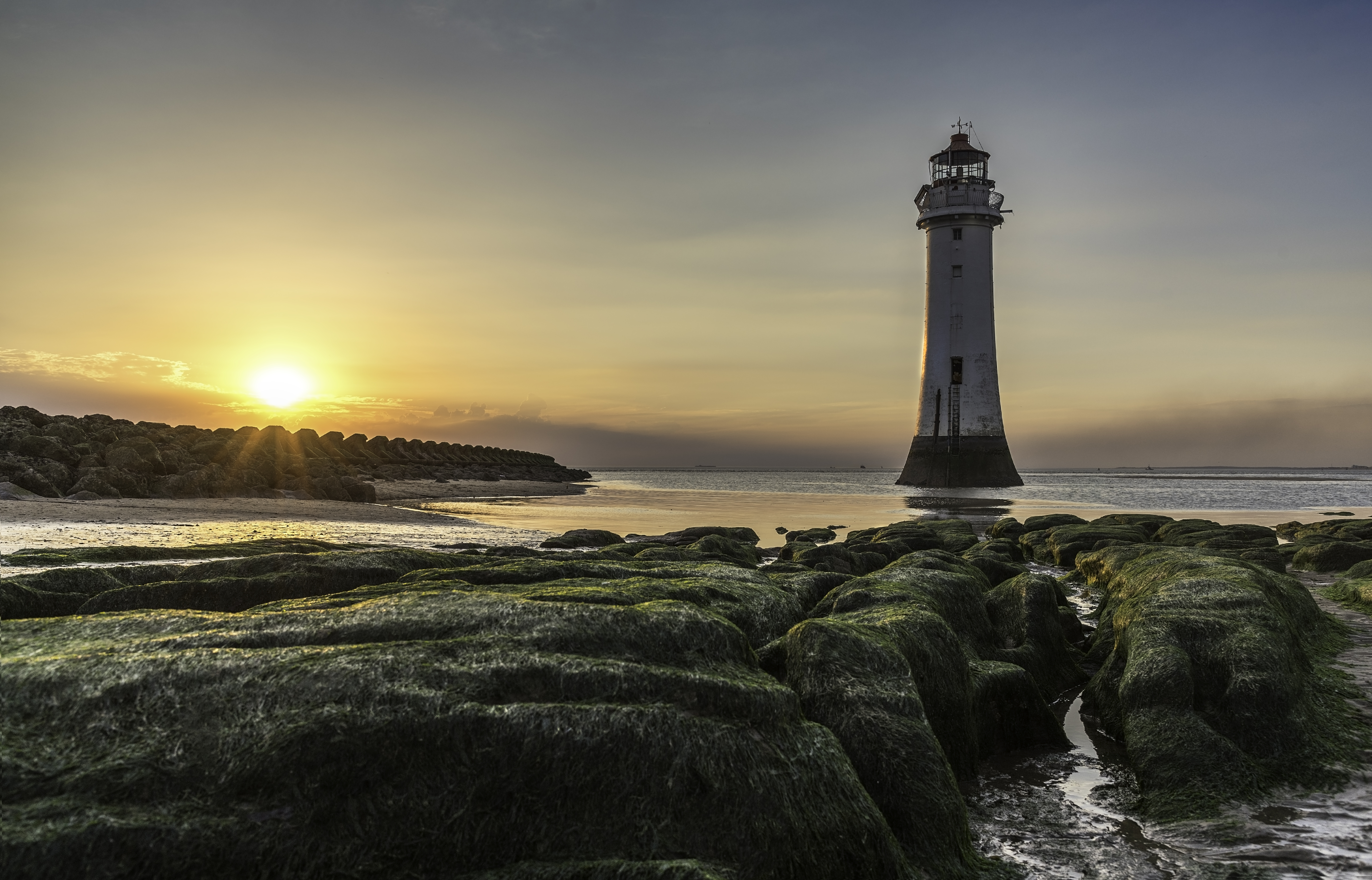 Summer sunset over Perch Rock Lighthouse, also known as New Brighton Lighthouse, New Brighton, Merseyside, England.